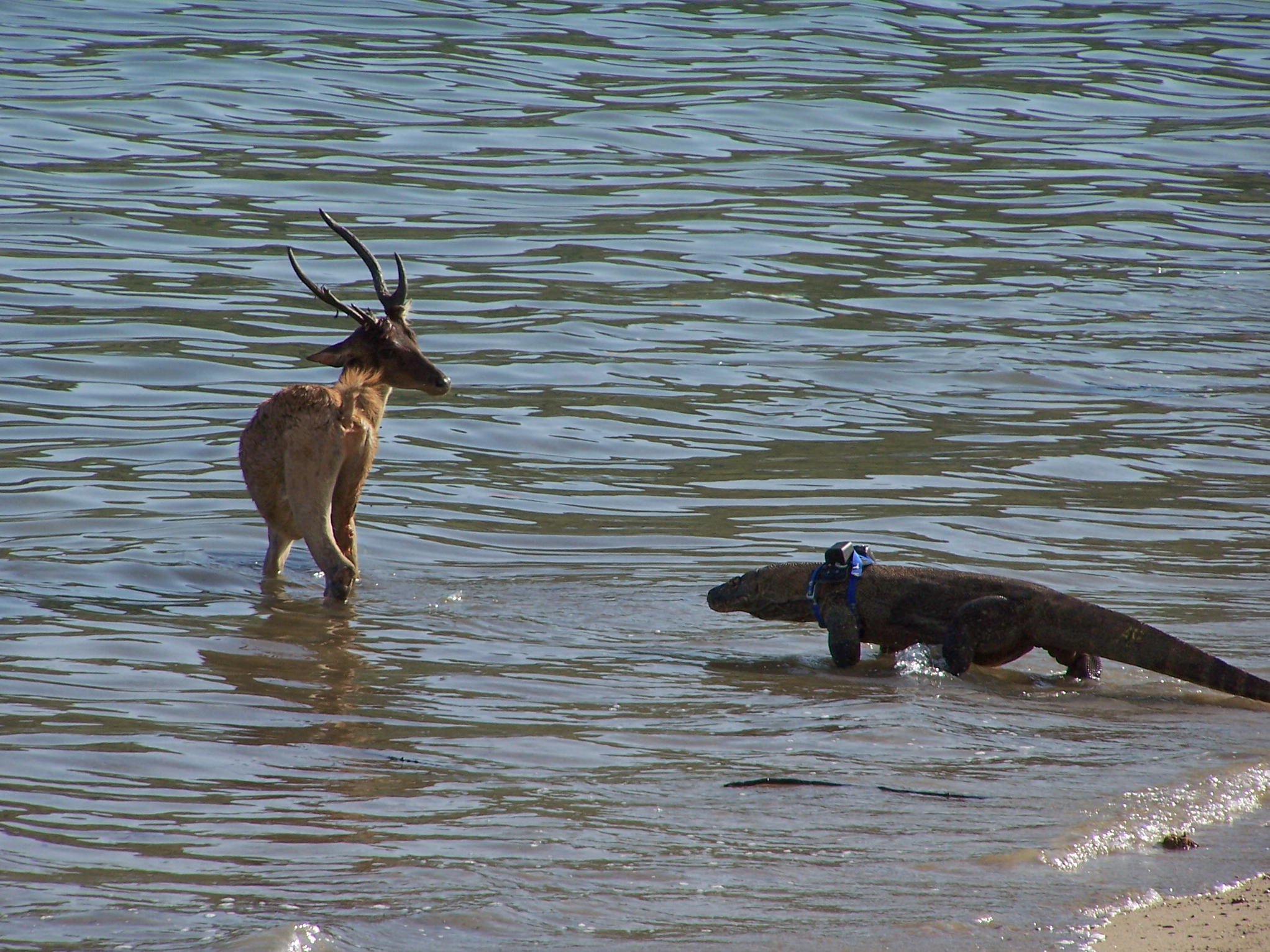 Pursuit of an escaped prey by a second dragon. An injured Timor deer that has escaped an initial lizard has fled to the ocean and is being stalked by a different dragon. This second lizard succeeded in killing the deer. The Komodo dragon pictured is wearing a GPS collar used for tracking the animal. Occasional prey escape is essential to the operation of the lizard-lizard epidemic model. (Photo by Achmad Ariefiandy.)